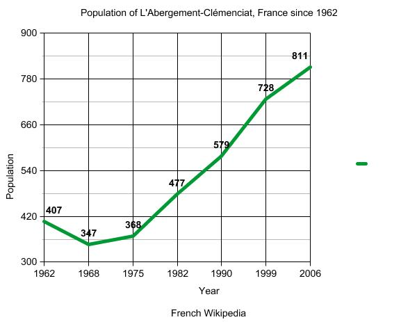 Population of L'Abergement-Clémenciat, France since 1962